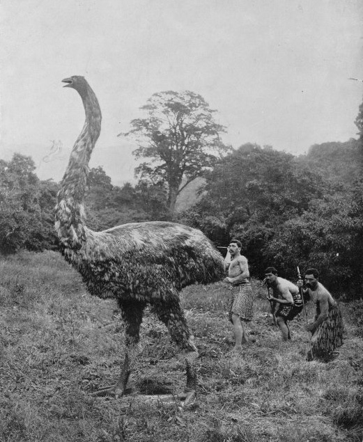 In the early 20th century, when this moa was reconstructed by Augustus Hamilton, moa were still thought to have a very upright neck. At the time Hamilton was registrar at the Otago Museum. He then placed the moa in the Dunedin Public Gardens and persuaded Peter Buck (left), Hēmi Papakura (middle) and Tūtere Wī Repa (right) to pose as if in a moa hunt. This famous image was reproduced at the 1906–7 Christchurch International Exhibition.[1]